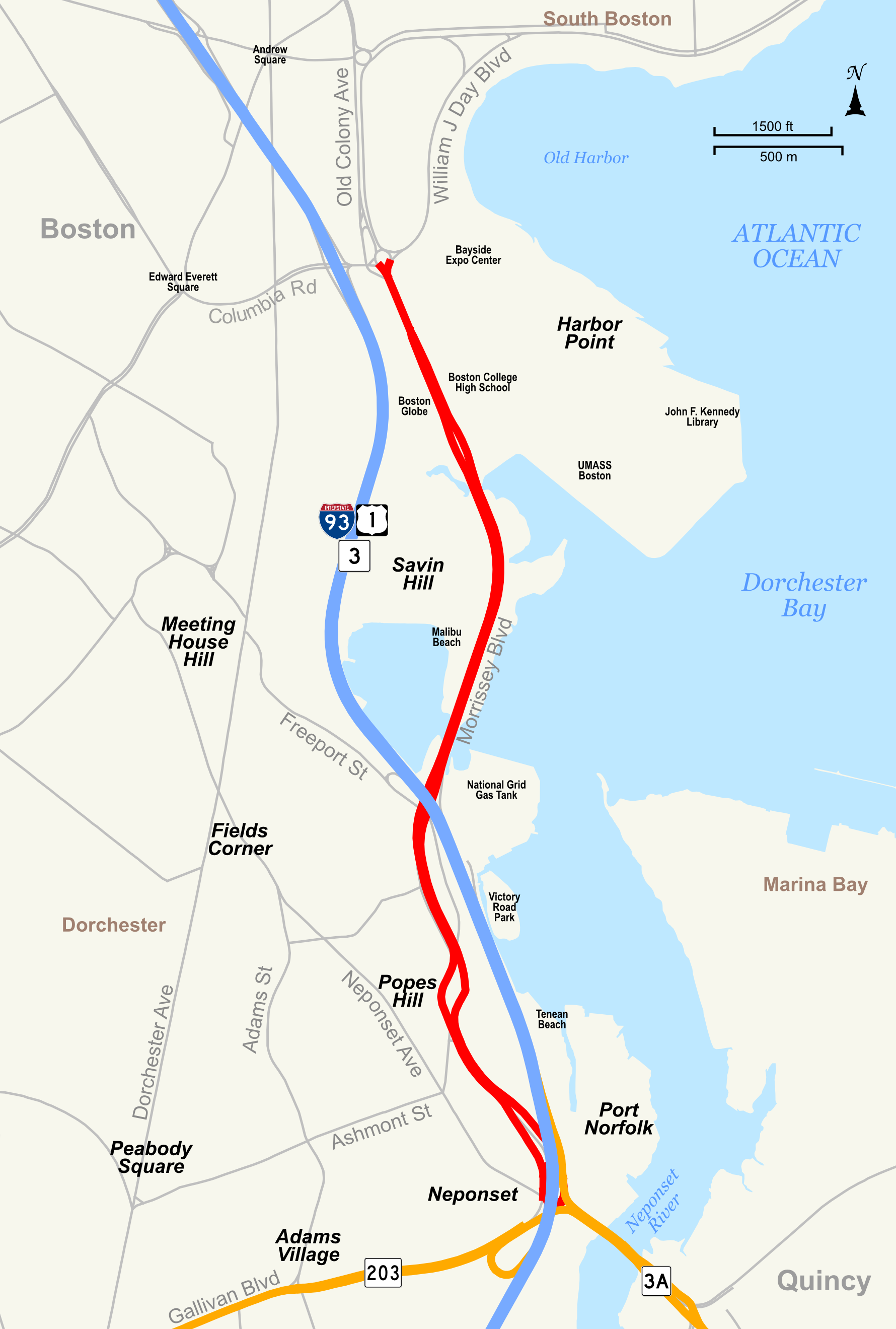 Map showing Morrissey Boulevard and surrounding area in Dorchester, Boston, Massachusetts with Morrissey Boulevard highlighted in red.